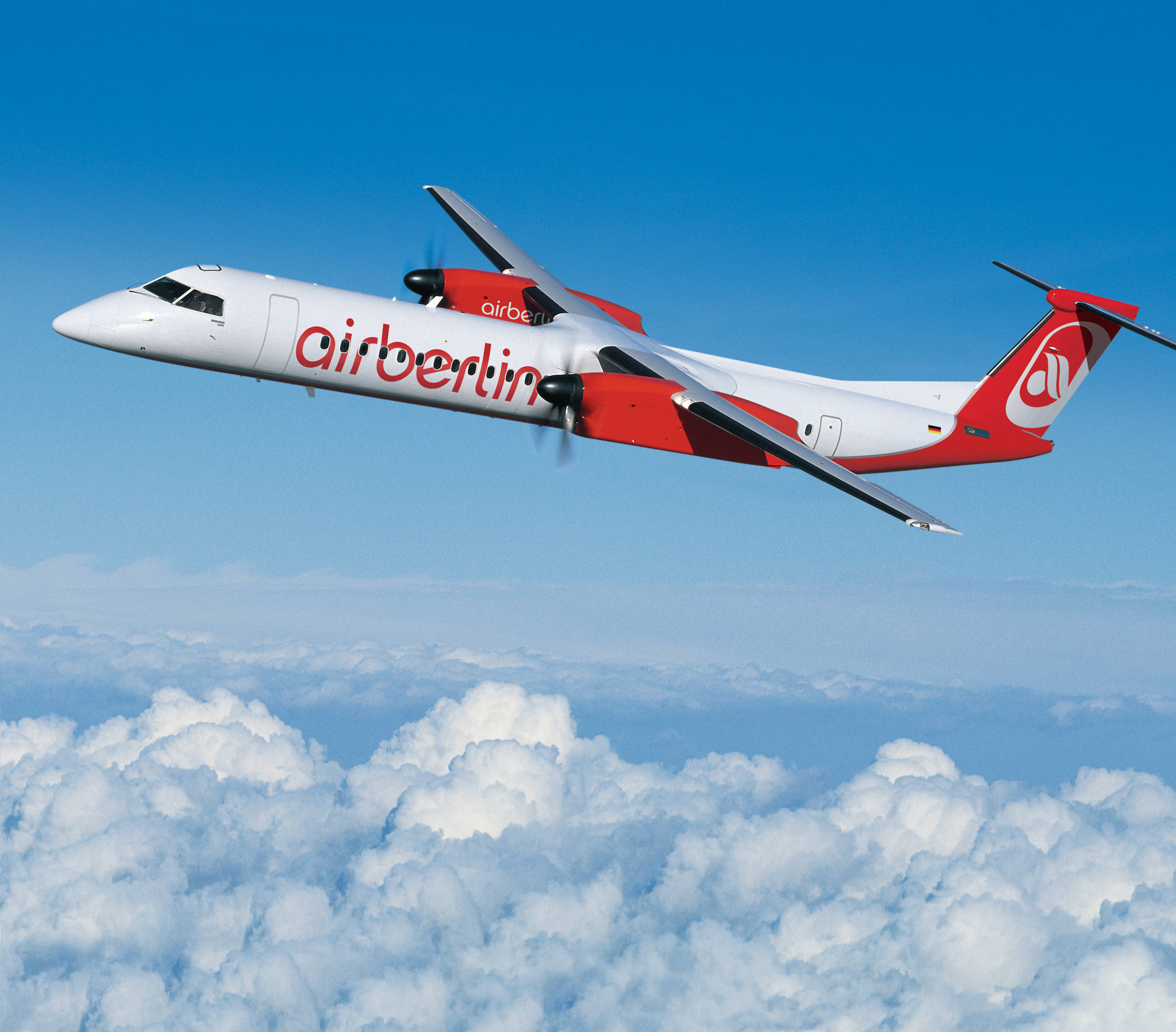 Bombardier Q400 in Air Berlin livery